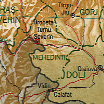 Map of Drobeta-Turnu Severin Municipality, Romania.